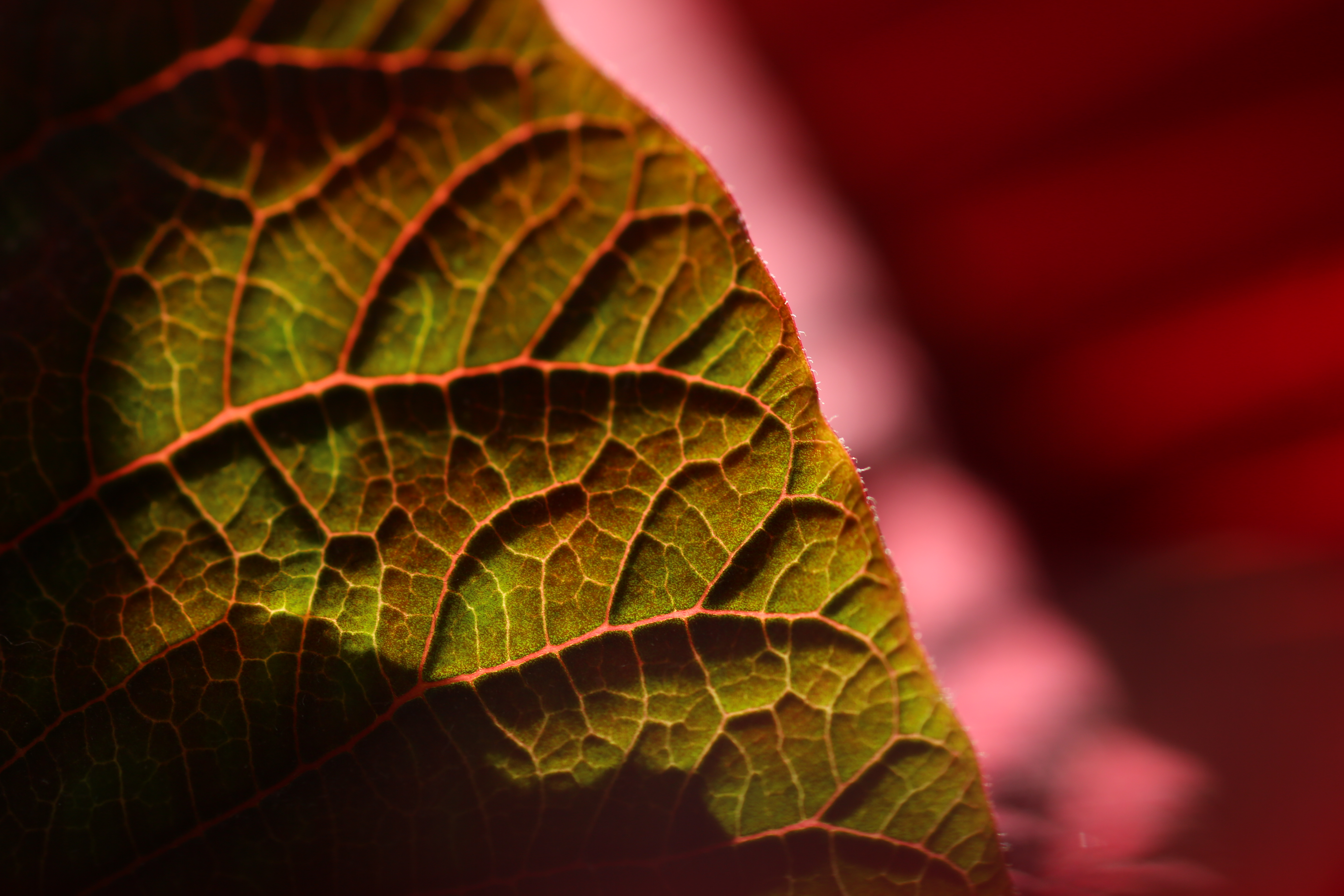 Venation of a Poinsettia (Euphorbia pulcherrima) leaf.